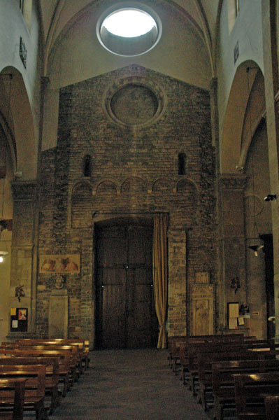 Santa Trinita. Florence